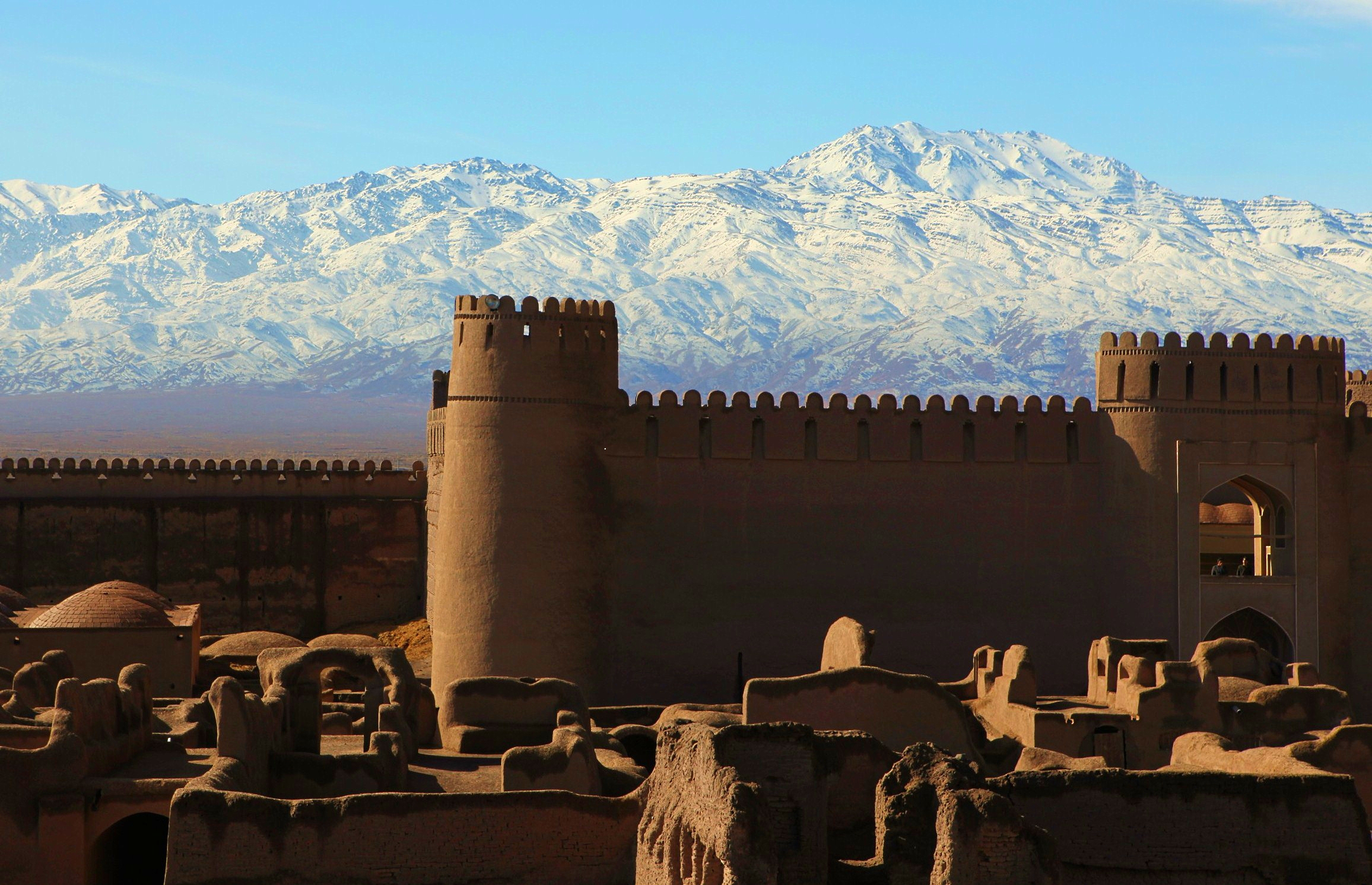 Medieval Rayen Castle (4th-century CE) — in Kerman. Adobe brick castle ruins and mountains in Kerman Province, southeastern Iran.